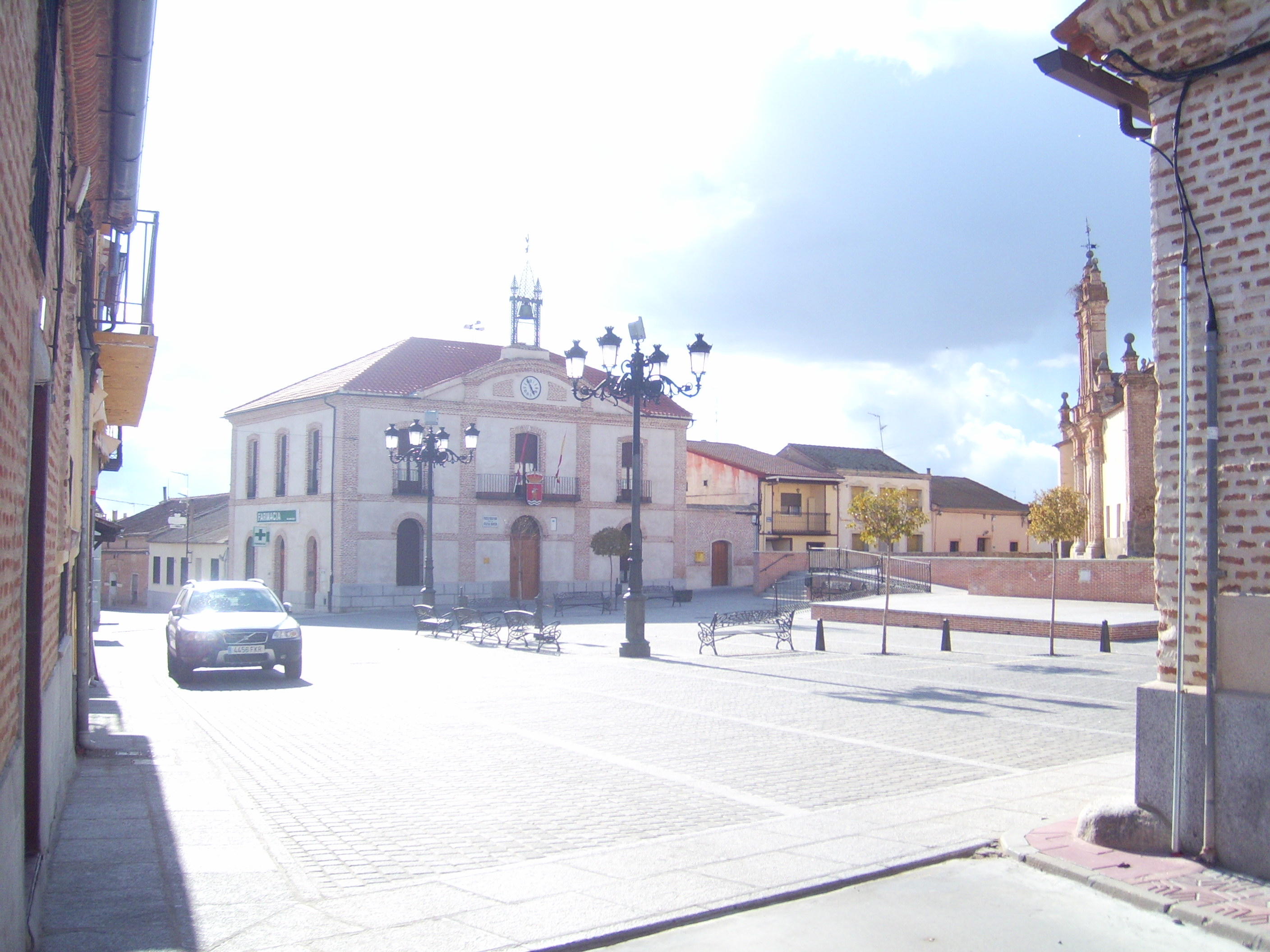 main square of Adanero (Ávila)